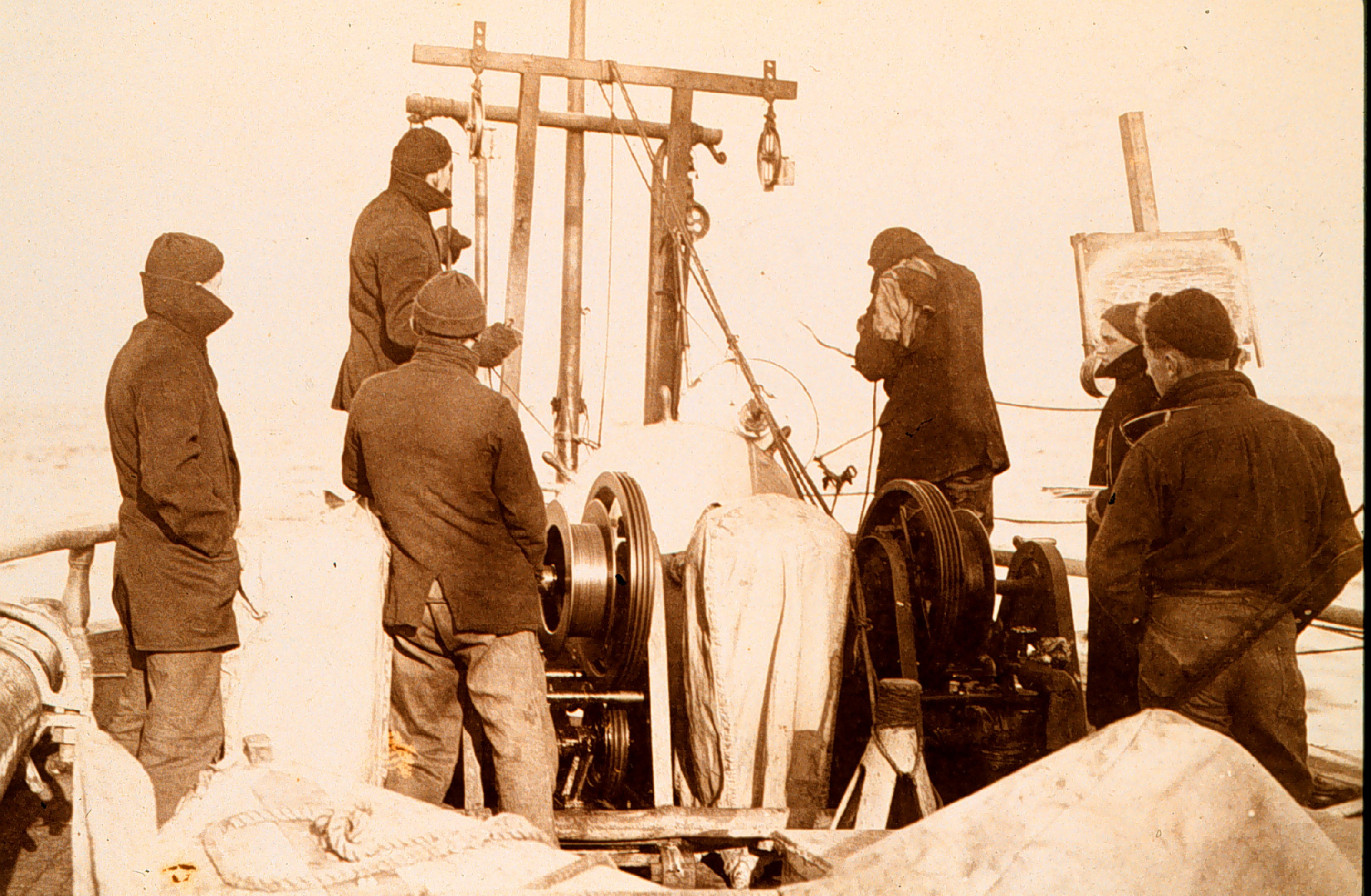 Sounding operations on the PATTERSON. Unimak Island area, Aleutian Islands, Alaska